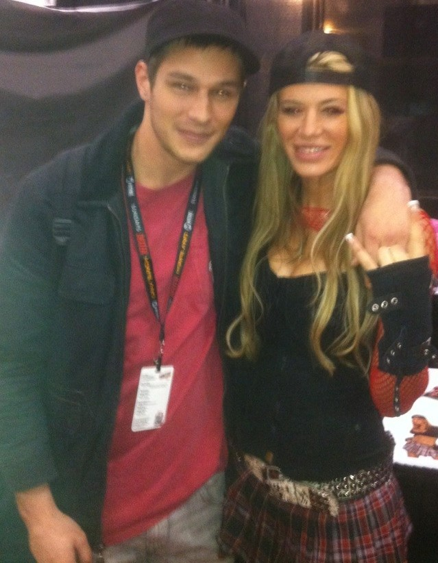 Ashley Massaro and her Brother